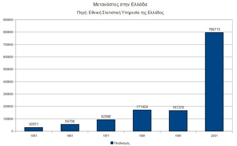 Statistical data from immigration to Greece between 1951 till 2001. The chart is from the Greek book "Το Μεταναστευτικό ζήτημα στην Μεσόγειο - Ισπανία - Ιταλία - Ελλάδα", Κωνσταντίνος Π. Καλοφωλιάς, εκδόσεις Μιχάλη Σιδέρη, ISBN 978-960-468-031-3 page 33".